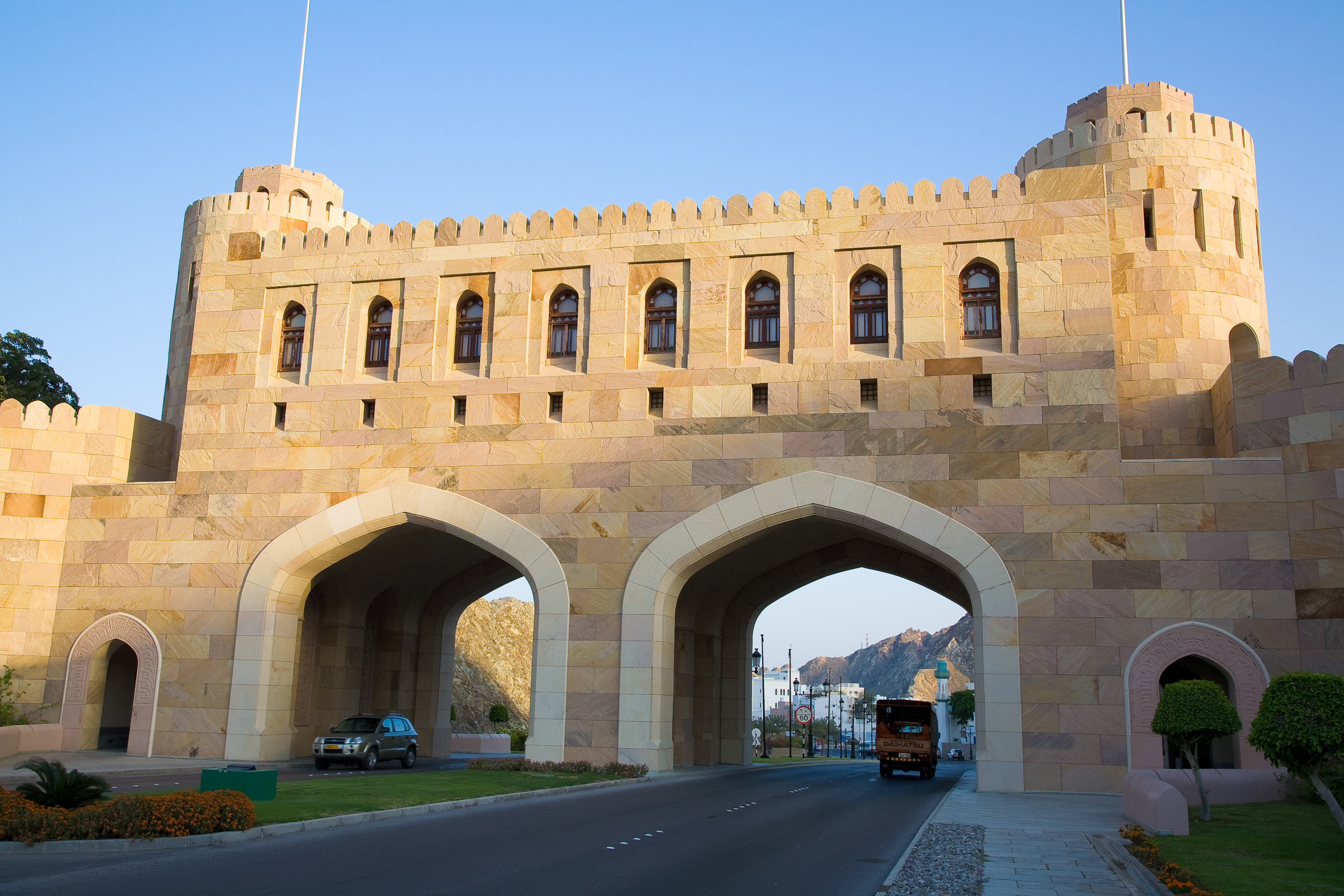 Old Muscat, Oman